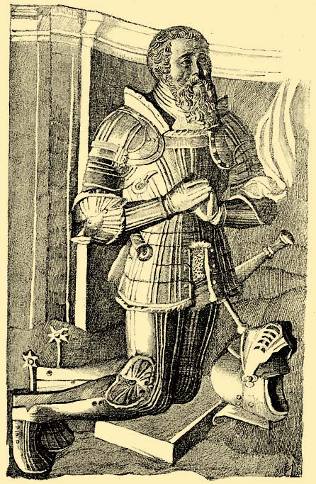 Tomb of Elek Thurzo, book illustr., orig. in Levoča